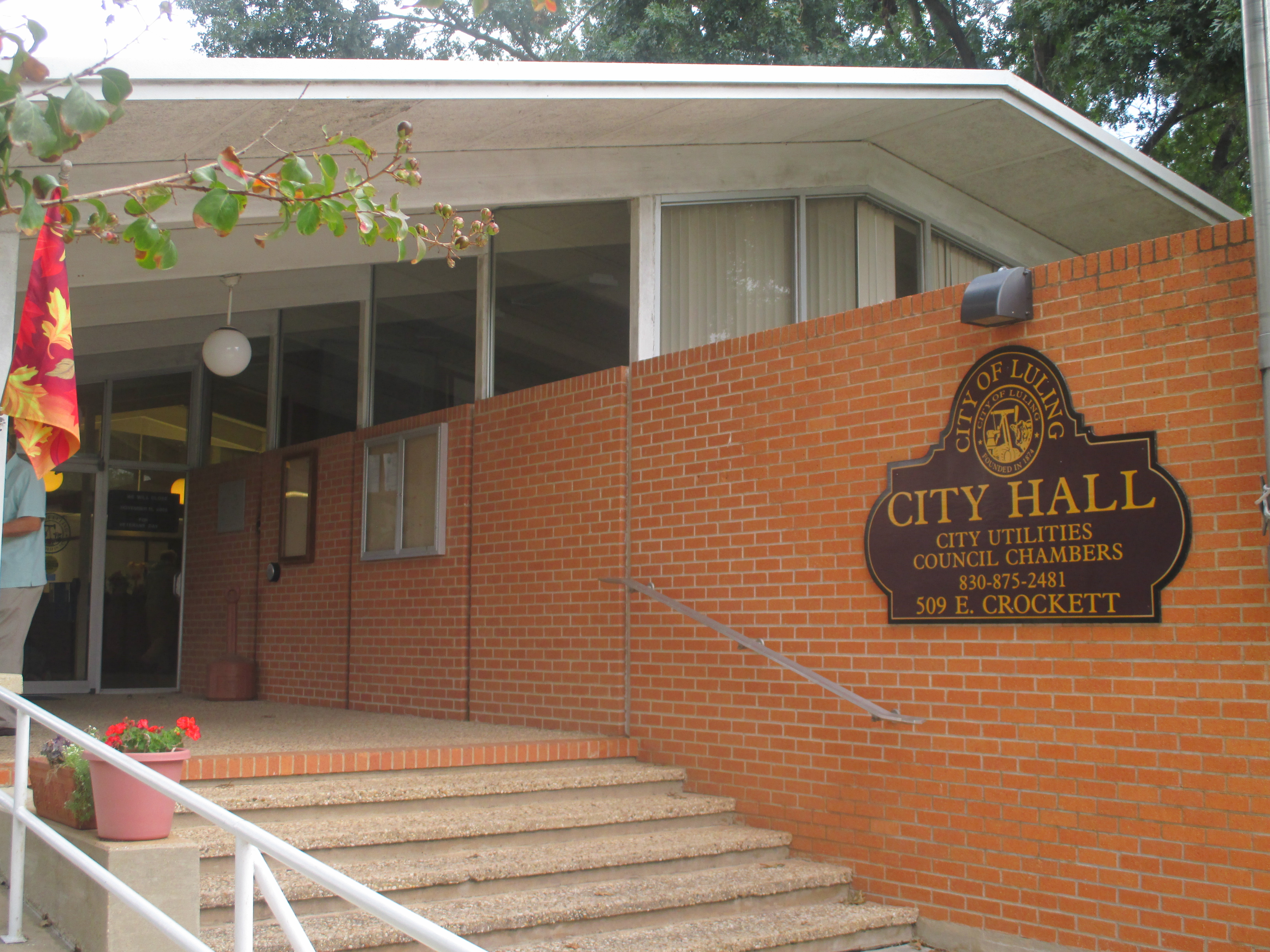 I took photo of Luling City Hall entrance, with Canon camera.